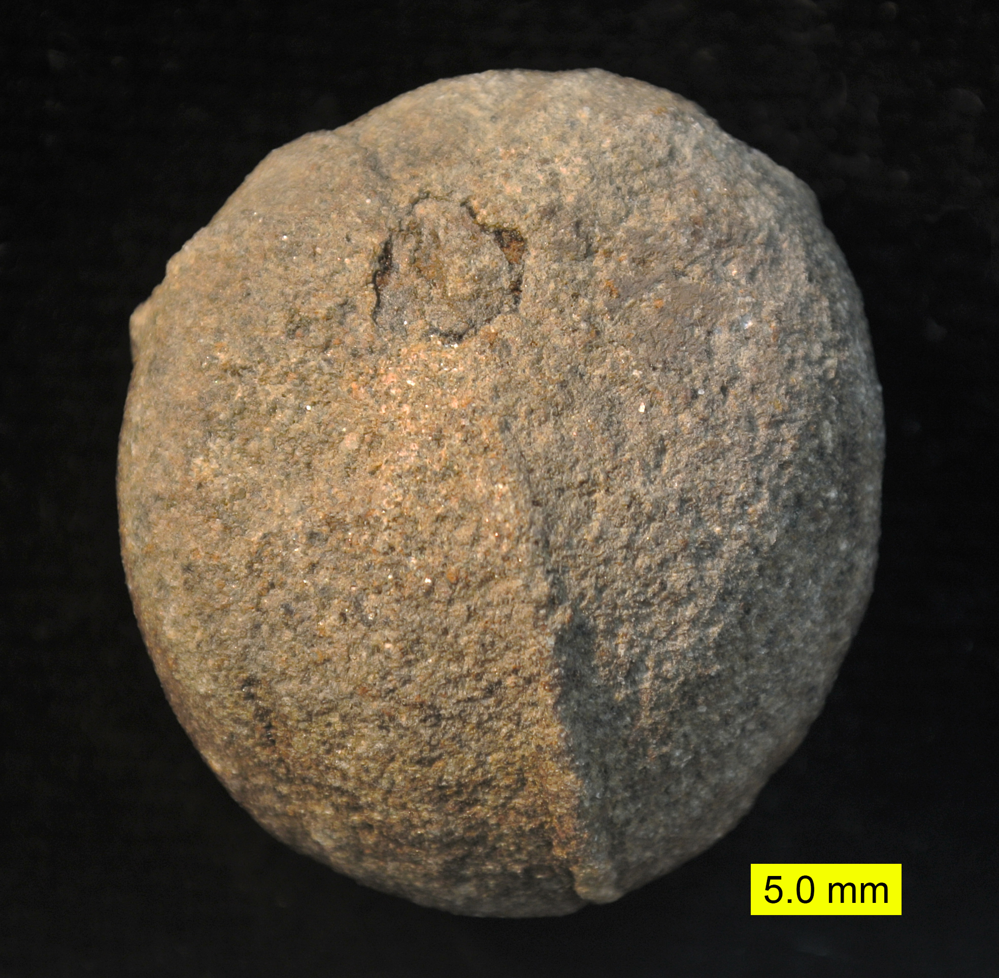 Trigonocarpus trilocularis Hildreth 1838. Fossil ovule showing stalk attachment. Massillon Sandstone (Upper Carboniferous), NE Ohio.